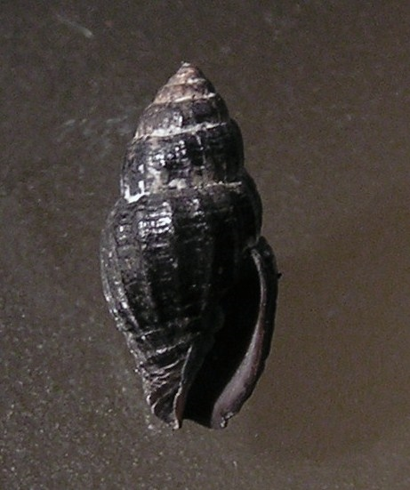 Vexillum ficulinum J. B. Lamarck, 1811; a ribbed miter from the family Costellariidae; Philippines